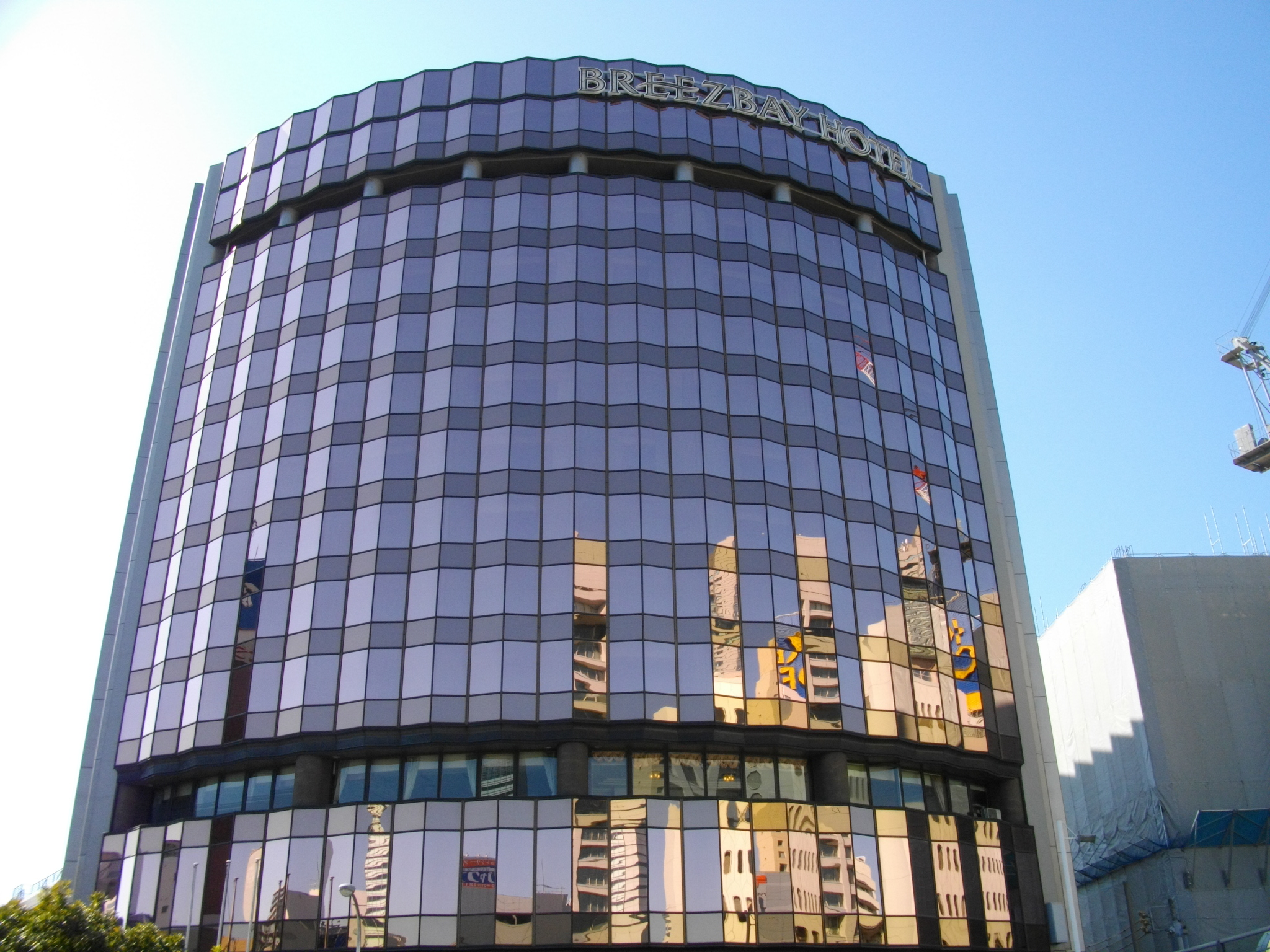 Breezbay Hotel Resort & Spa